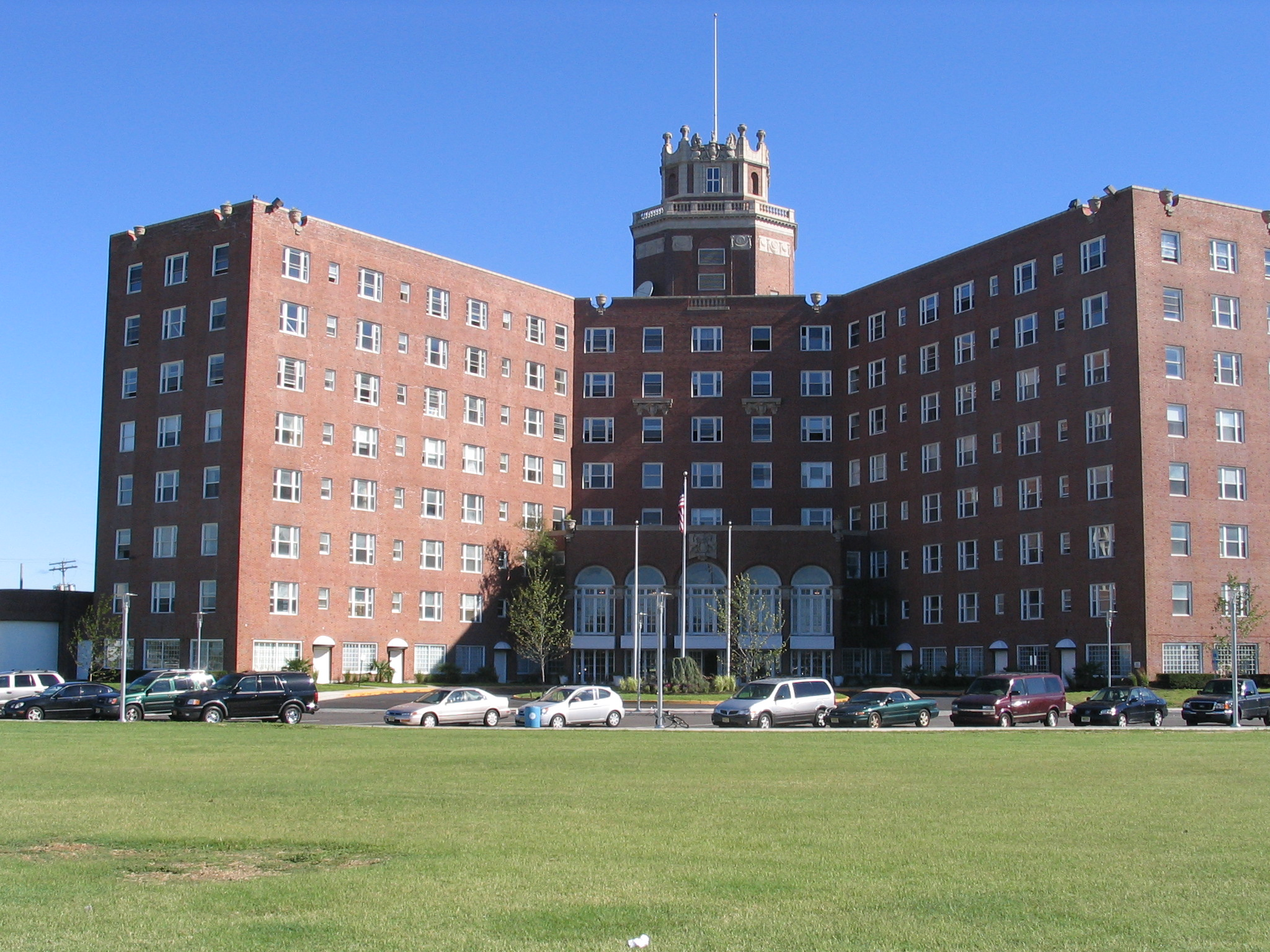 A photo of the Berkley Hotel in Asbury Park, New Jersey